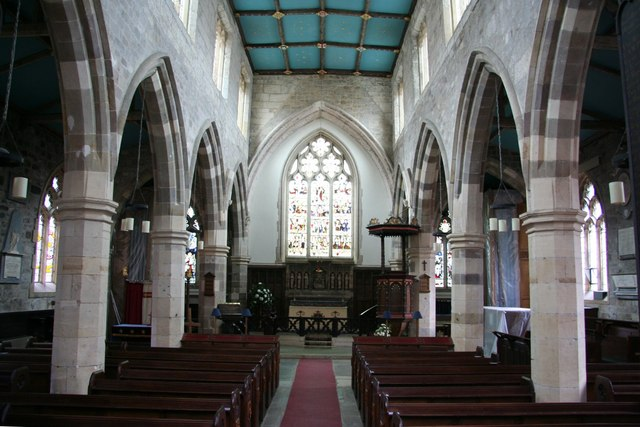 All Saints Pavement, nave Looking east to the 15th century chancel arch, though the chancel was pulled down in 1782